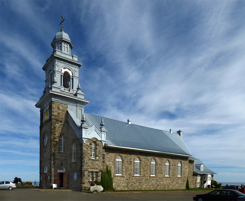 Church of Sainte-Luce, Bas-Saint-Laurent, Quebec, Canada.